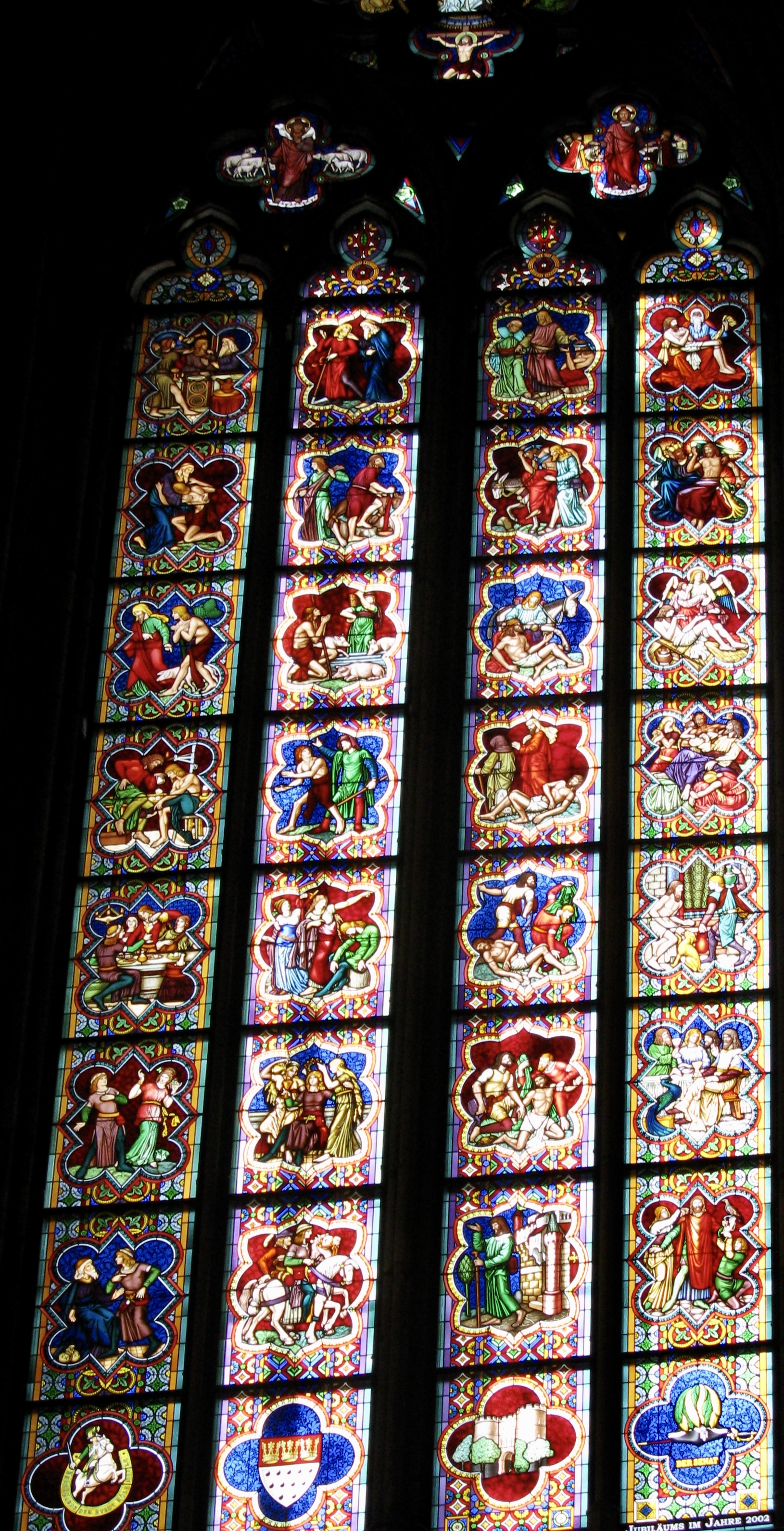 This is a photograph of an architectural monument.